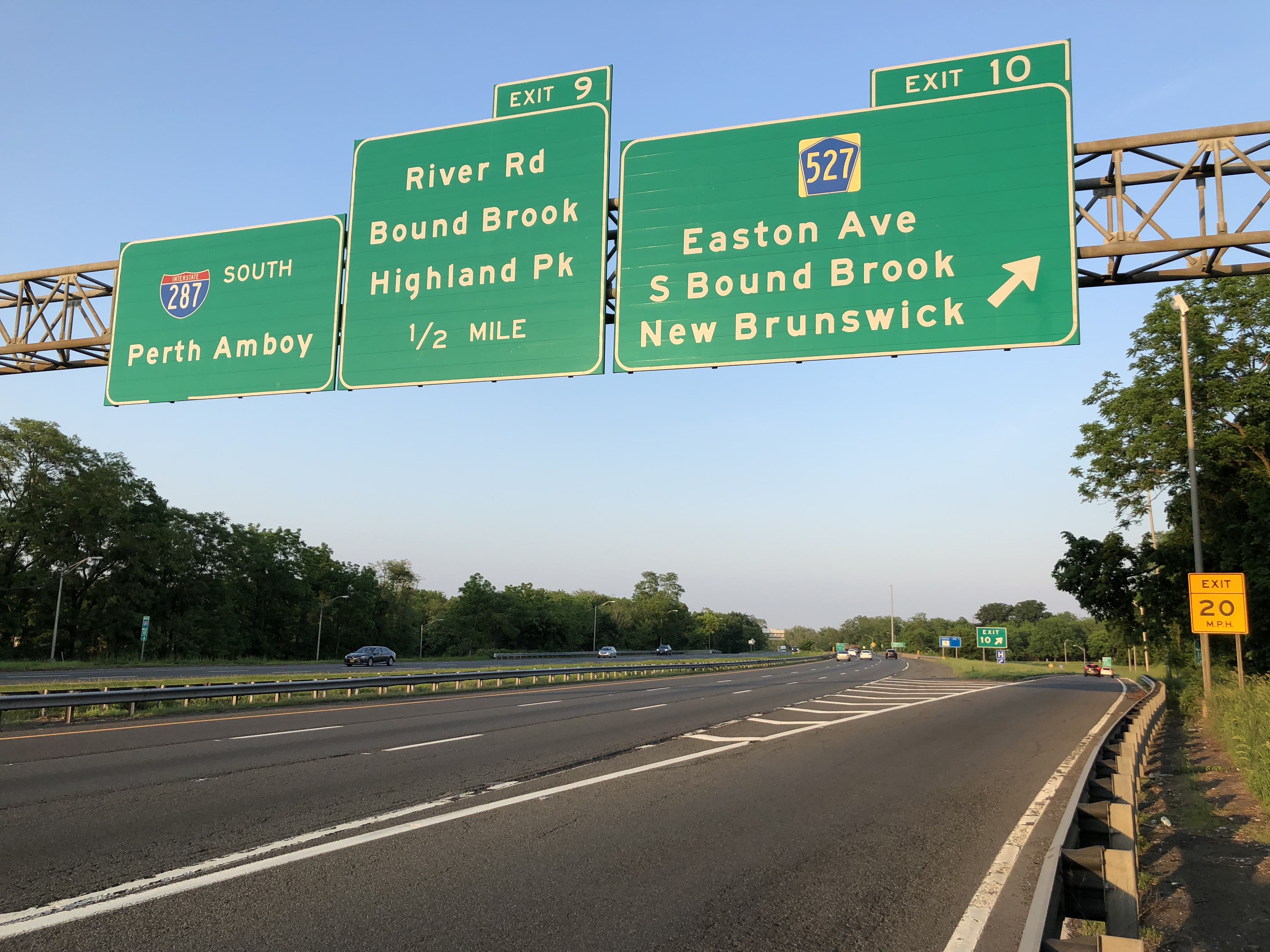 View south along Interstate 287 at Exit 10 (Somerset County Route 527/Easton Avenue, South Bound Brook, New Brunswick) in Franklin Township, Somerset County, New Jersey